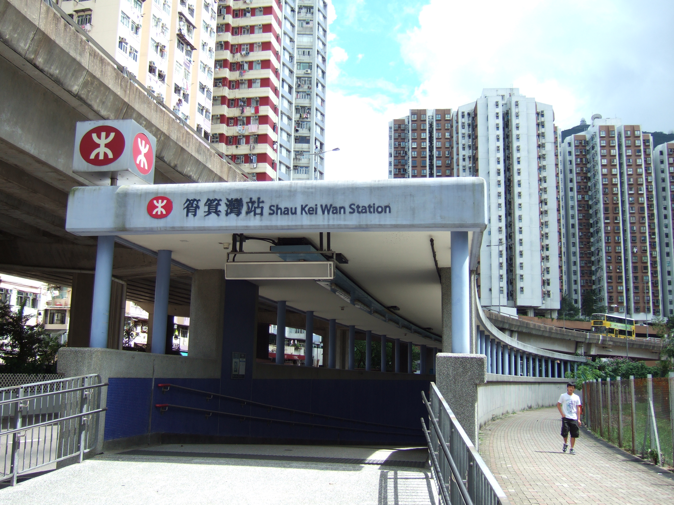 Photo of Shau Kei Wan Station Exit D1